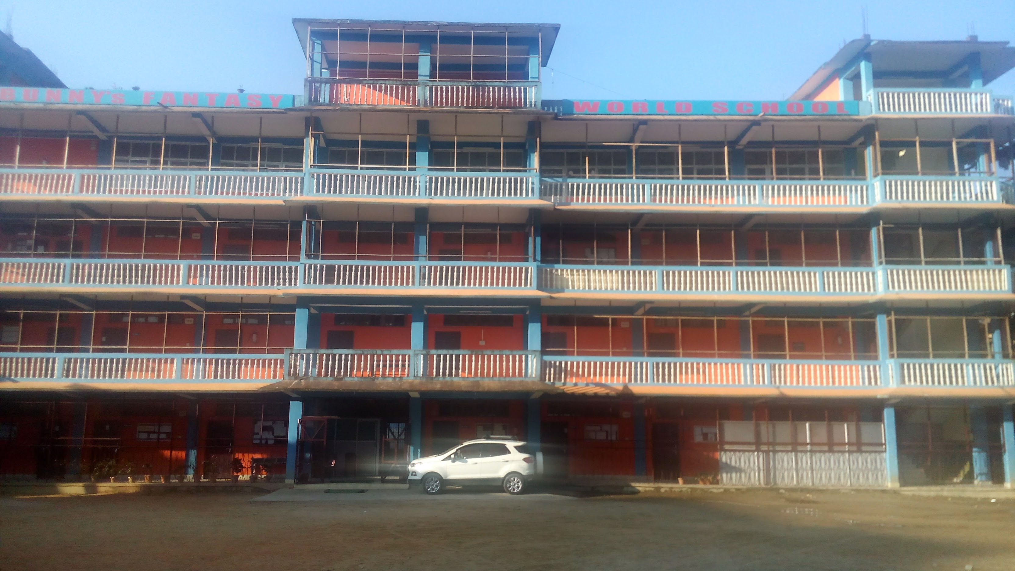 HOSTEL FACILITY: The School management has started a hostel for the Bunnies (both boys & girls) formally from Class I onwards in their own premises. In case of Bunnies of LKG & UKG classes, a separate limited hostel facility is made available on request in a private lodging place subject to availability of seat on first-come first-served basis.